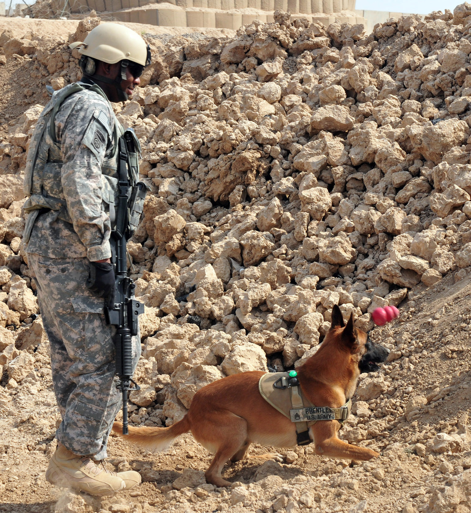 Military working dog rewarded: Sgt. Stanley Daniels, a military working dog handler from Chicago serving with the 385th Military Police Battalion out of Fort Stewart, Ga., attached to 2nd Advise and Assist Brigade, 1st Cavalry Division, rewards Bbentley, his military working dog, with a chew toy for finding a box of explosives during training at Contingency Operating Base Warhorse, Iraq, July 7, 2011.